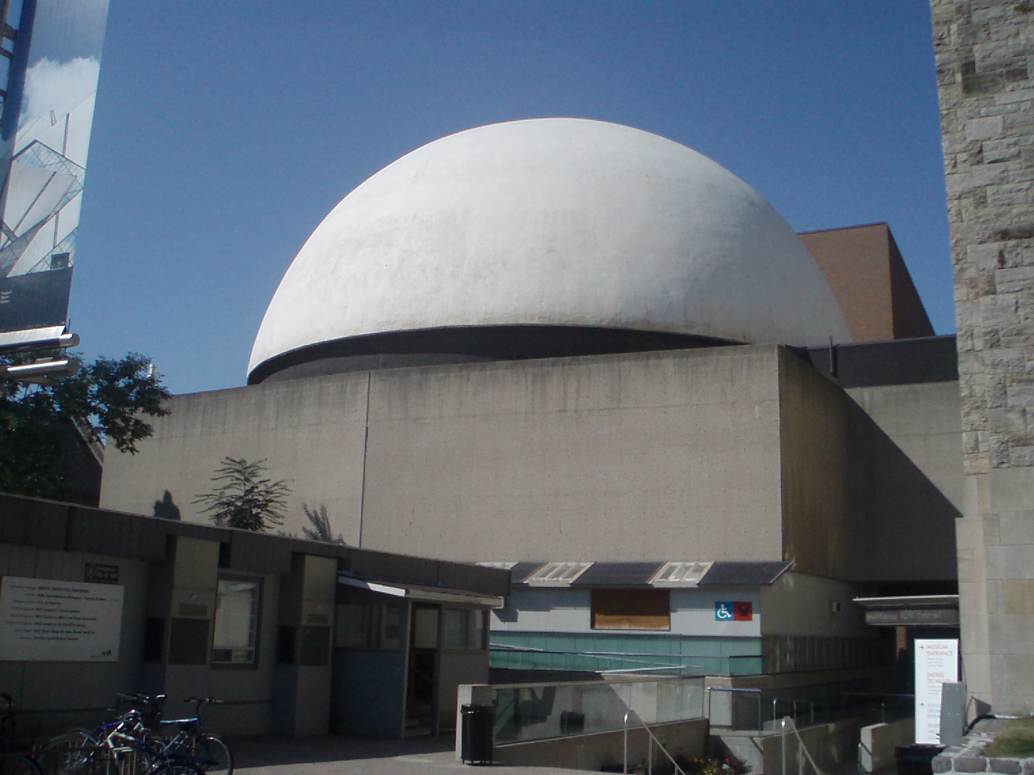 Picture of the east-facing part of the McLaughlin Planetarium, adjacent to the south entrance of the Royal Ontario Museum. This picture offer better contrast against the sky than previous images of the building in Wikimedia Commons.